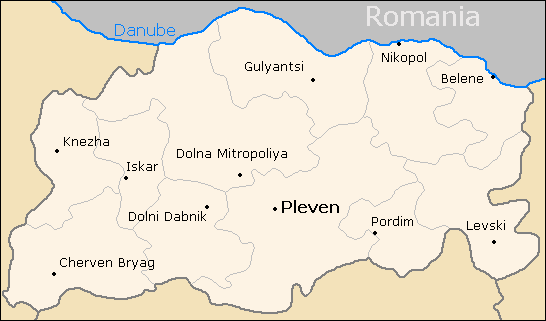 map of the Oblast Pleven in Bulgaria, labelled in English